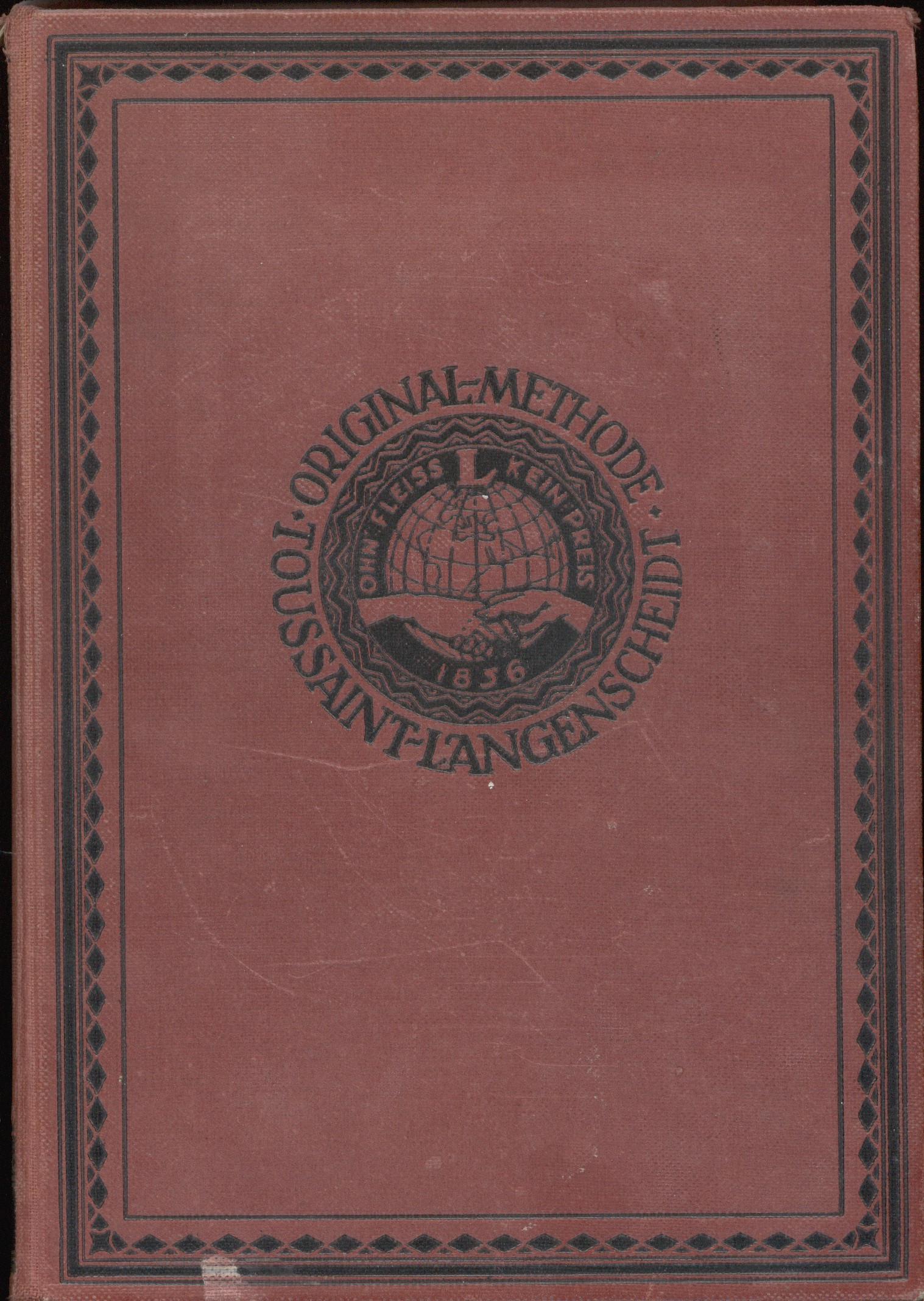 Sight of the Dictionary Muret-Sanders, Edition 1910